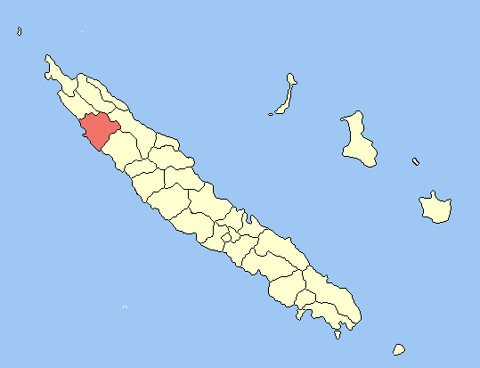 Created map myself.